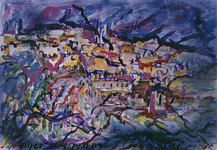 Neiger's painting of Jerusalem